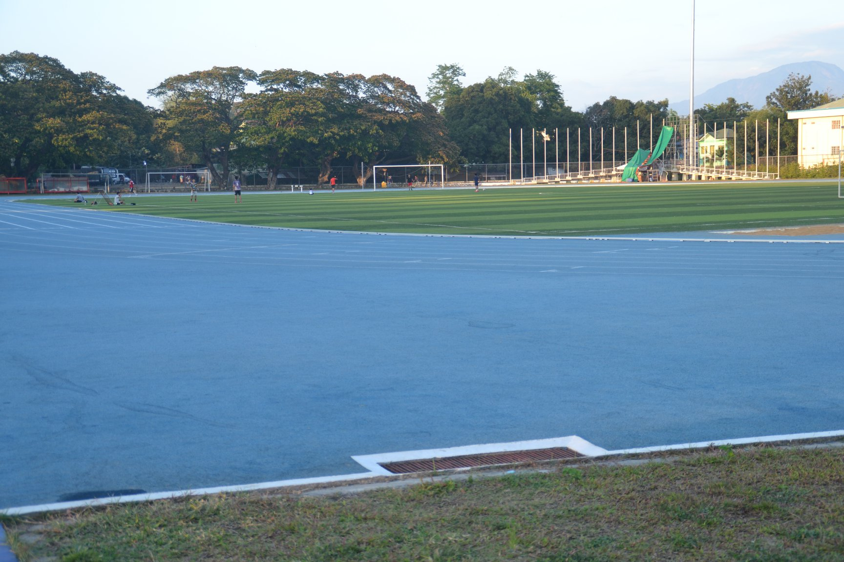 This is part of the oval and soccer pitch at Pres Quirino Stadium in Municipality of Bantay, where the opening and closing programs of the Palarong Pambansa will be held in April 15 and April 21, 2018, respectively. Owned by PIA - Ilocos Sur (Philippine Information Agency) and it is public domain.